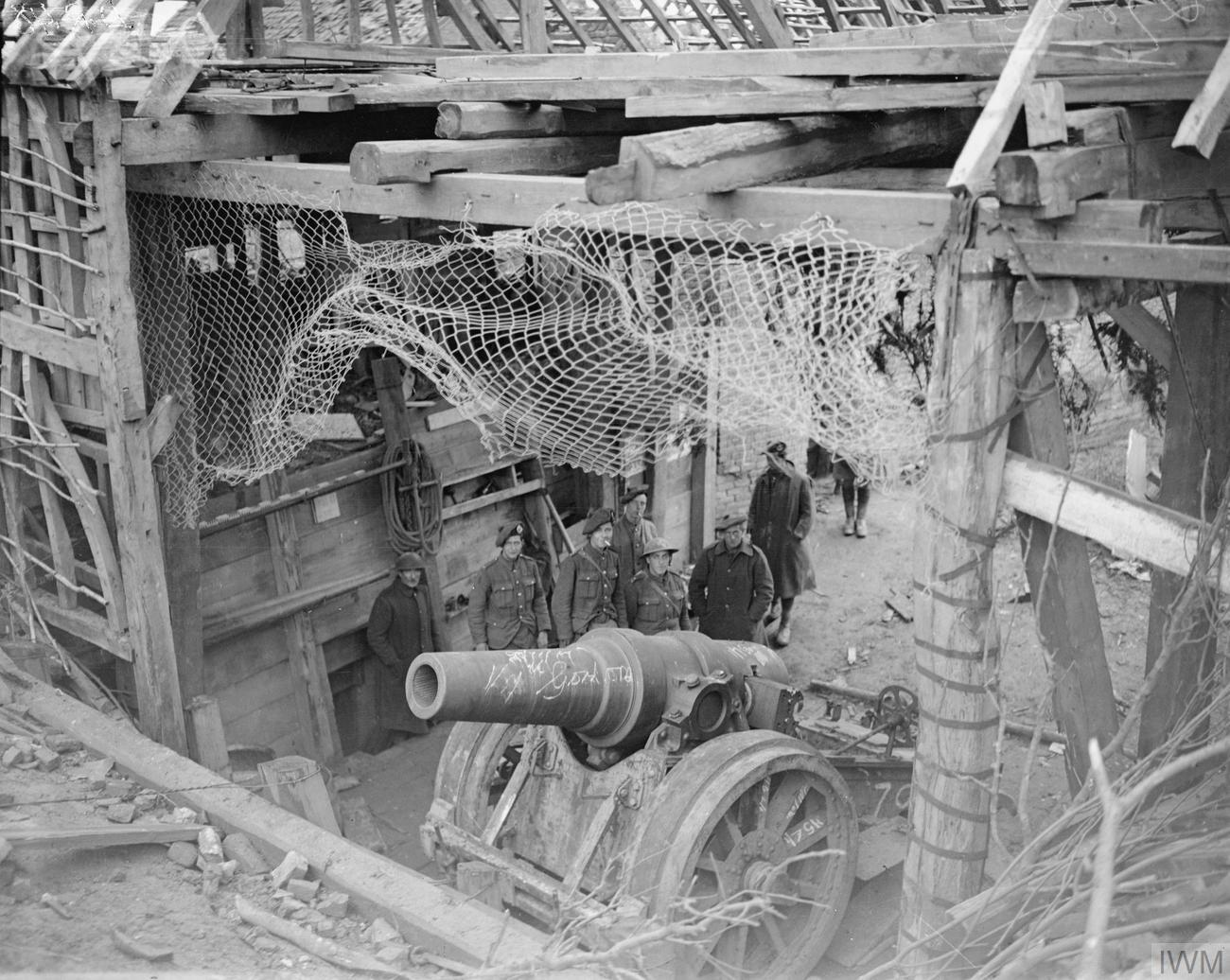 Battle of Cambrai, November-december 1917 A German howitzer captured by the 1st/7th Gordon Highlanders, 51st Division at Flesquieres in its emplacement. 24 November, 1917. (2015 Comment: This is a "21 cm Turmhaubitze M 1891" as it was made by Krupp for the belgian forts Liege, Namur and Antwerp, converted to field guns by the Imperial German Army after they had captured the forts.)